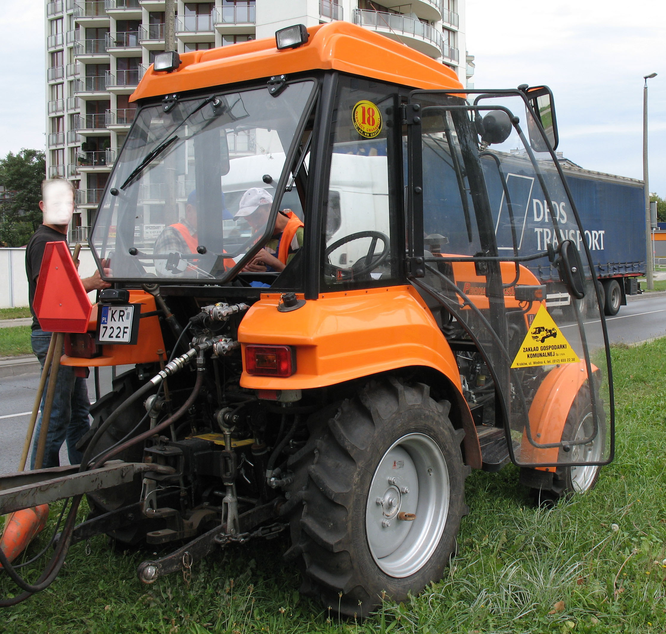 Pronar 320AMK tractor in Kraków, Poland.